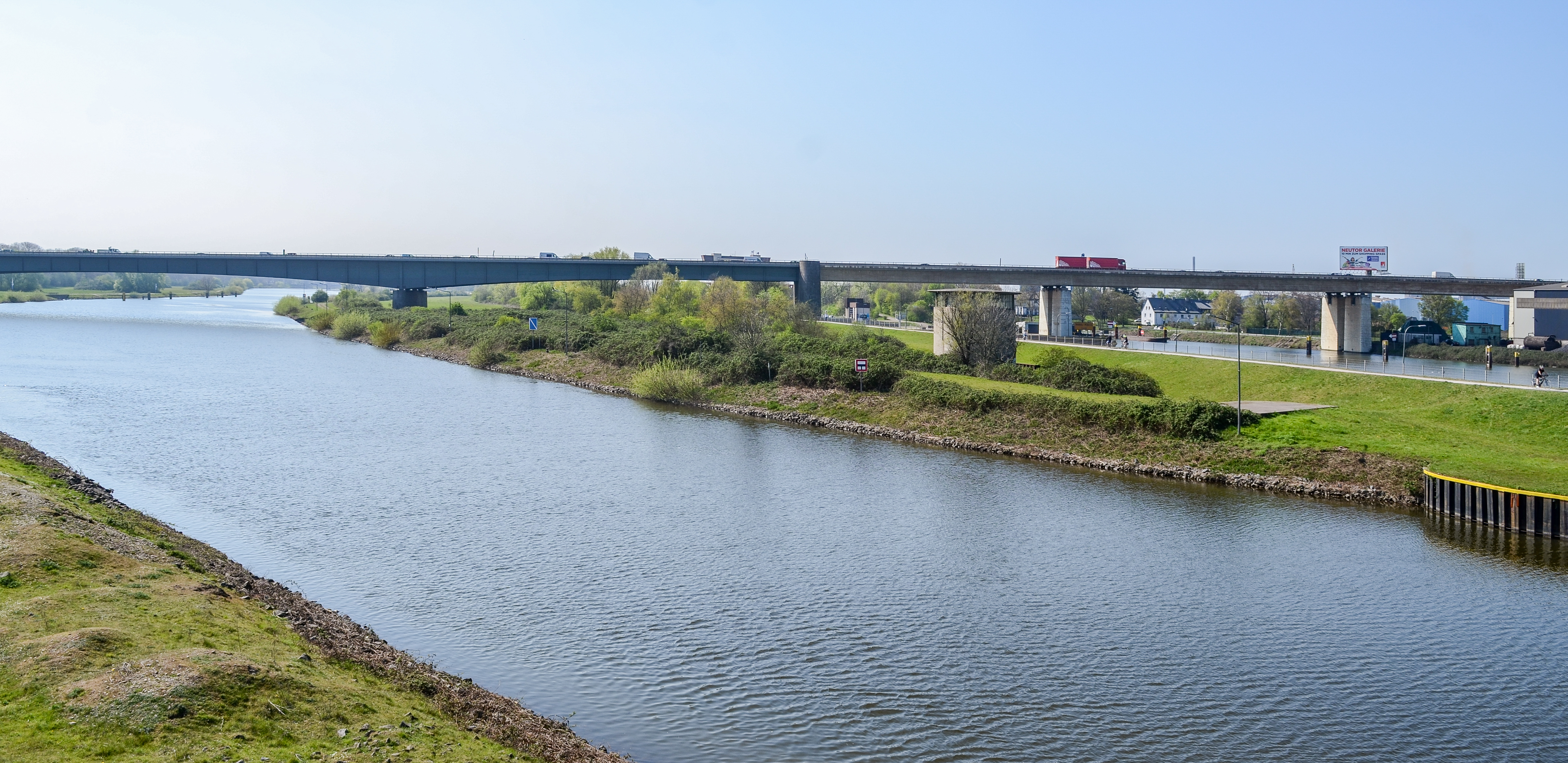 Duisburg (North Rhine-Westphalia, Germany) – borough Meiderich/Beeck, district Meiderich – Berlin Bridge – section seen from the east